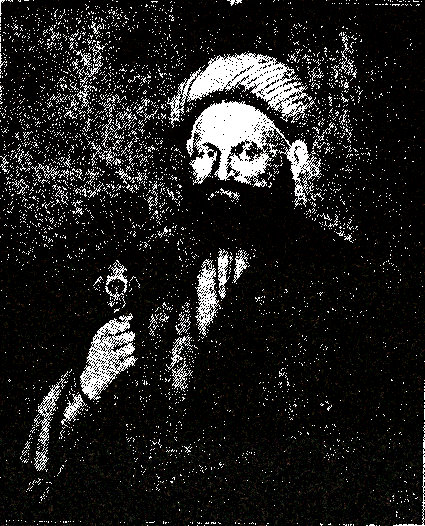 Pope Cyril IV (110th) Patriarch of Alexandria - Father of Reform